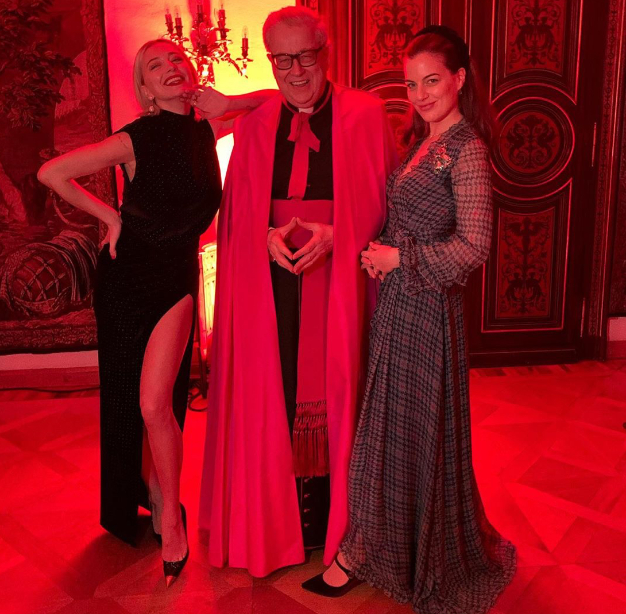 Caroline Vreeland, Monsignor Wilhelm Imkamp, and Cleopatra, Hereditary Princess of Oettingen-Spielberg on 20 December 2019 at Schloss Oettingen